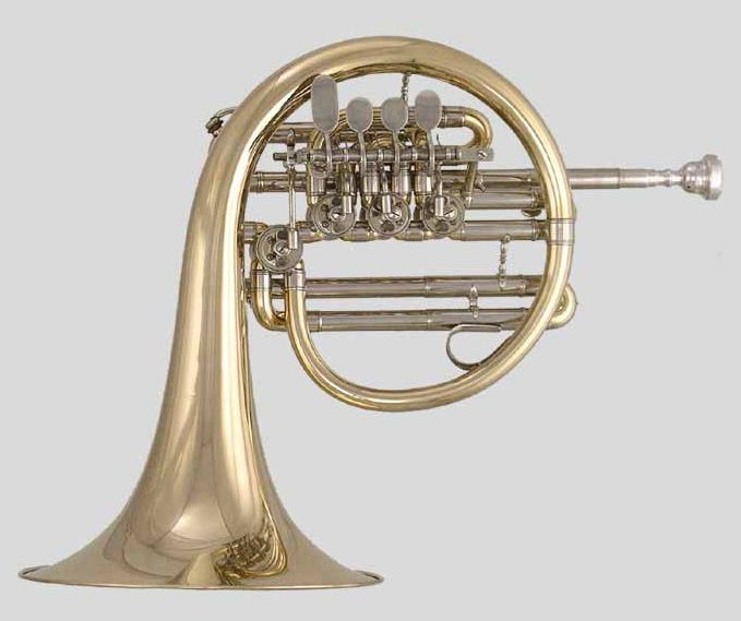 Corno da caccia, modern